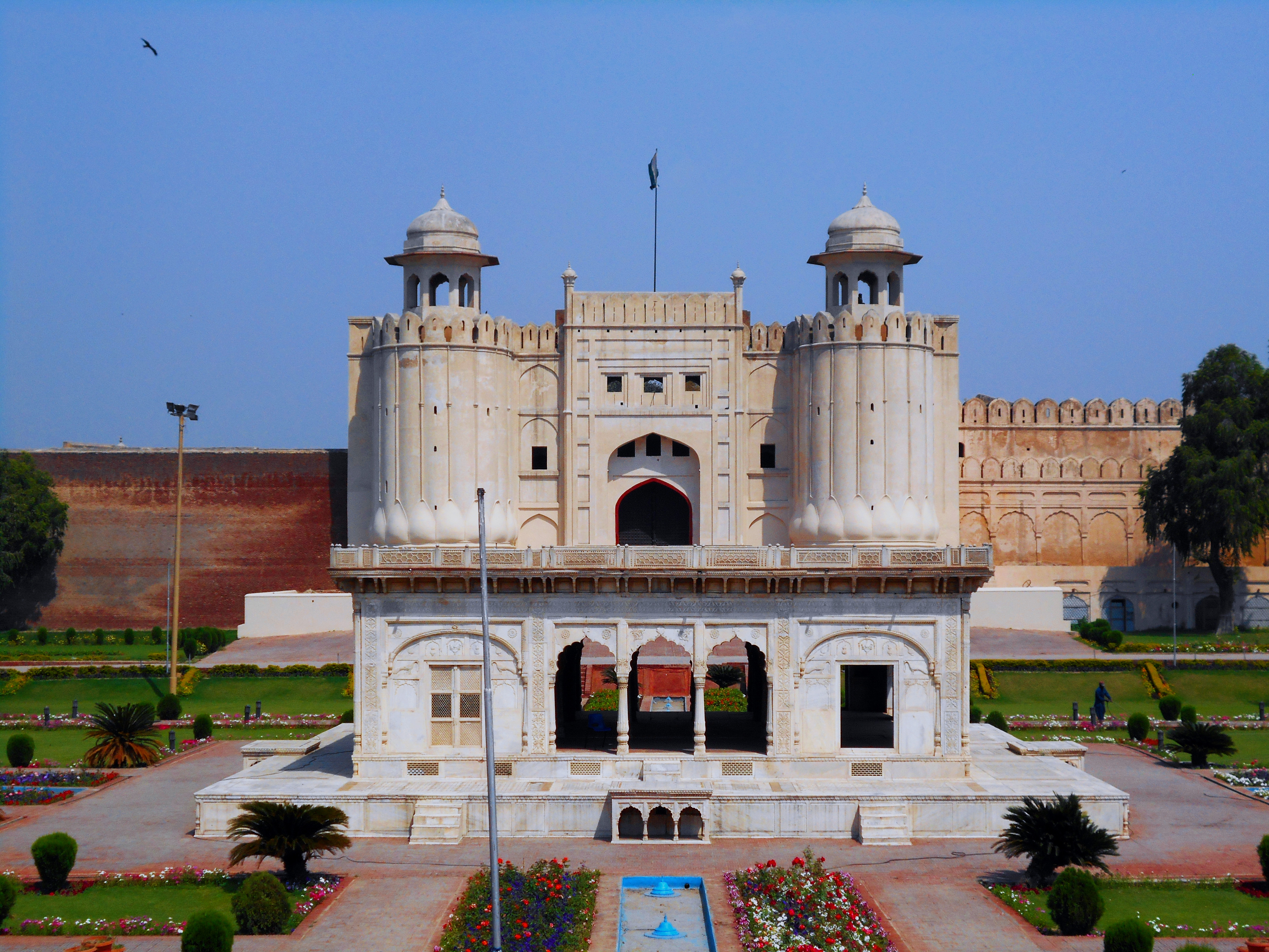 Lahore Fort complex (including Moti Masjid, Naulakha Pavilion, Sheesh Mahal and others) This is a photo of a monument in Pakistan identified as the PB-67